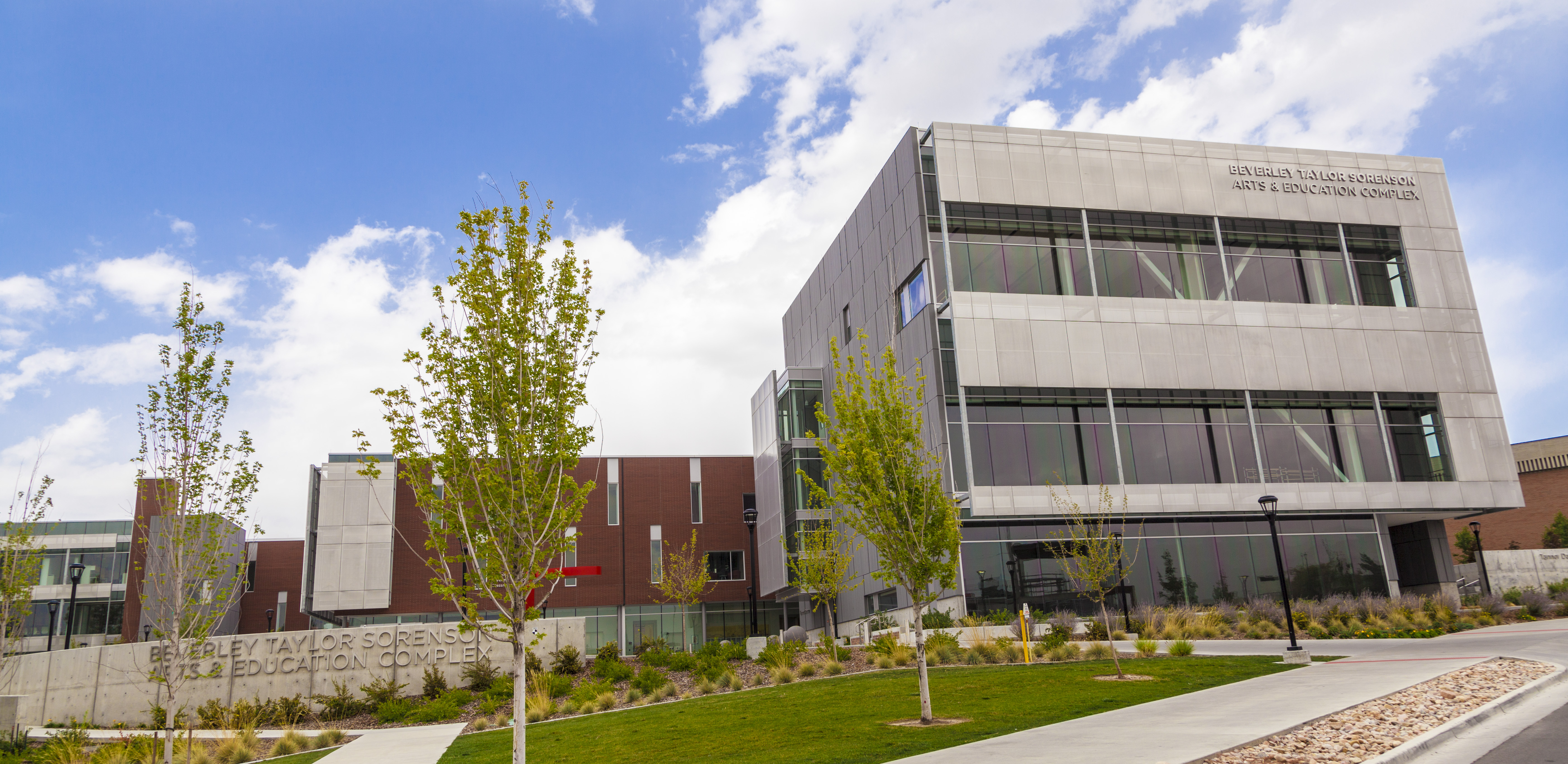 Beverly Taylor Sorenson Arts & Education Complex at the University of Utah in Salt Lake City, Utah, USA.